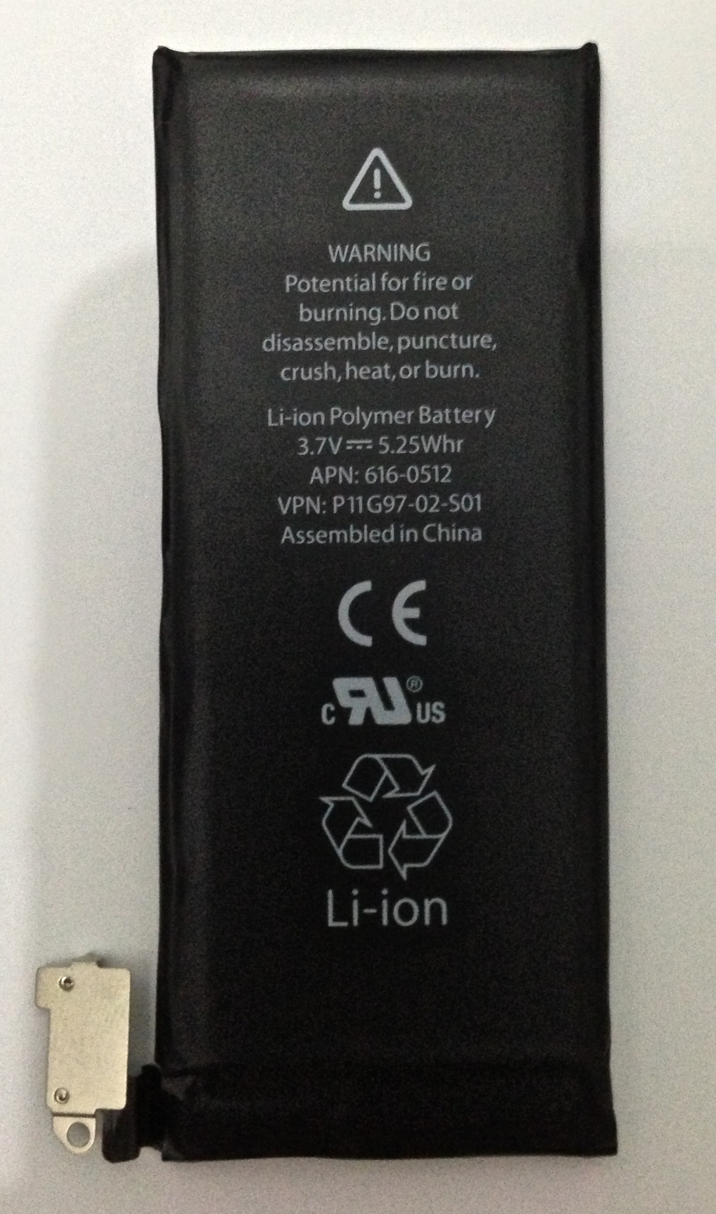 Li Polymer Battery for iPhone